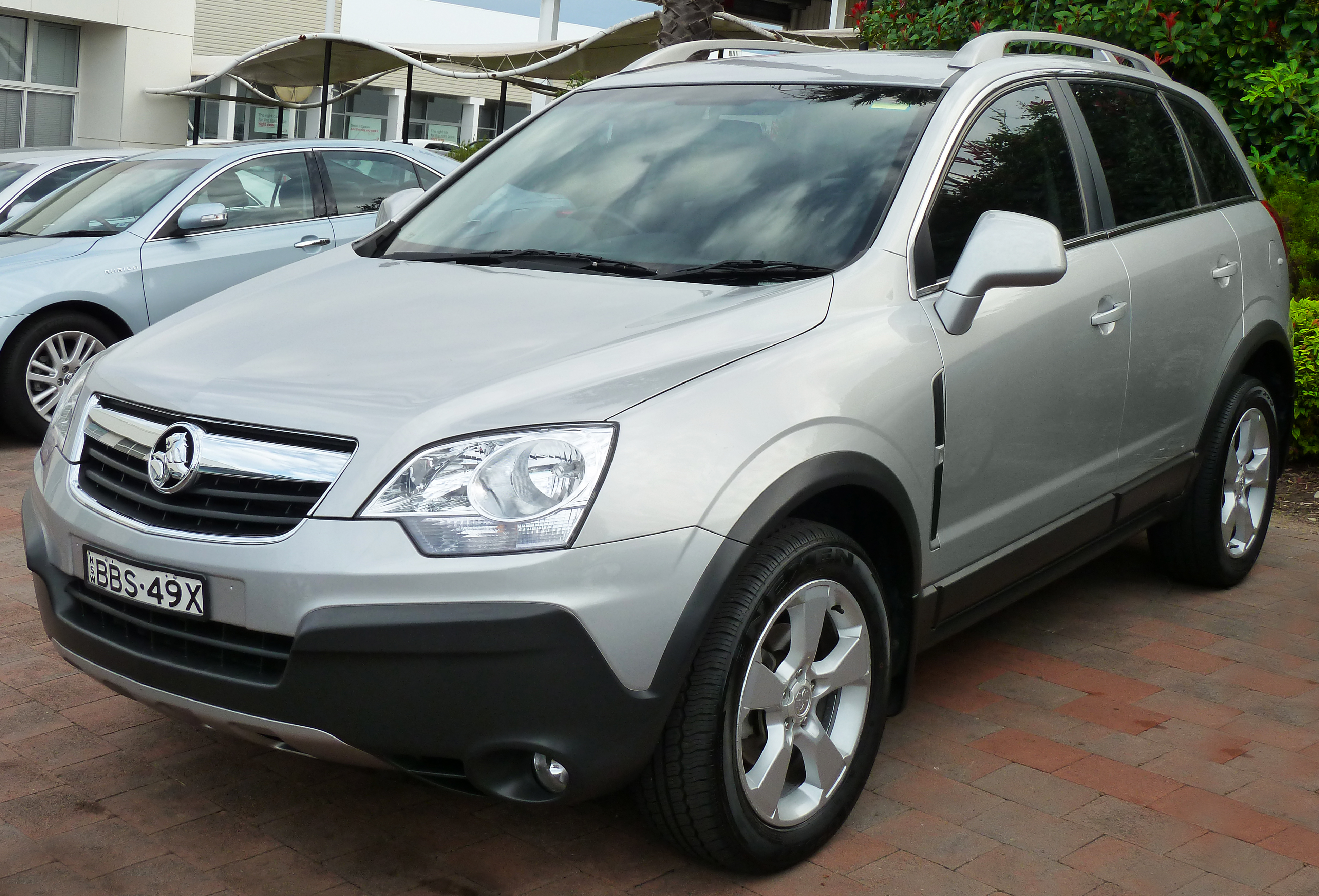 2007 Holden Captiva (CG) MaXX wagon. Photographed in Kirrawee, New South Wales, Australia.